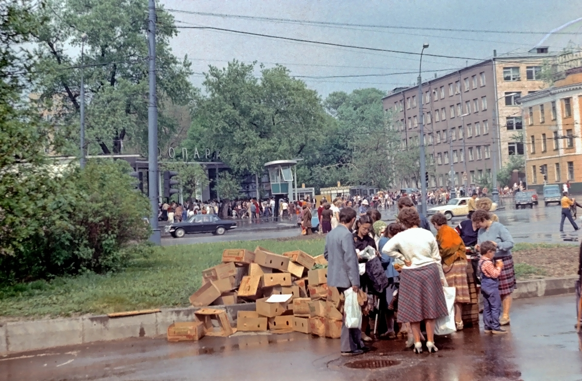 Moscow in 1985